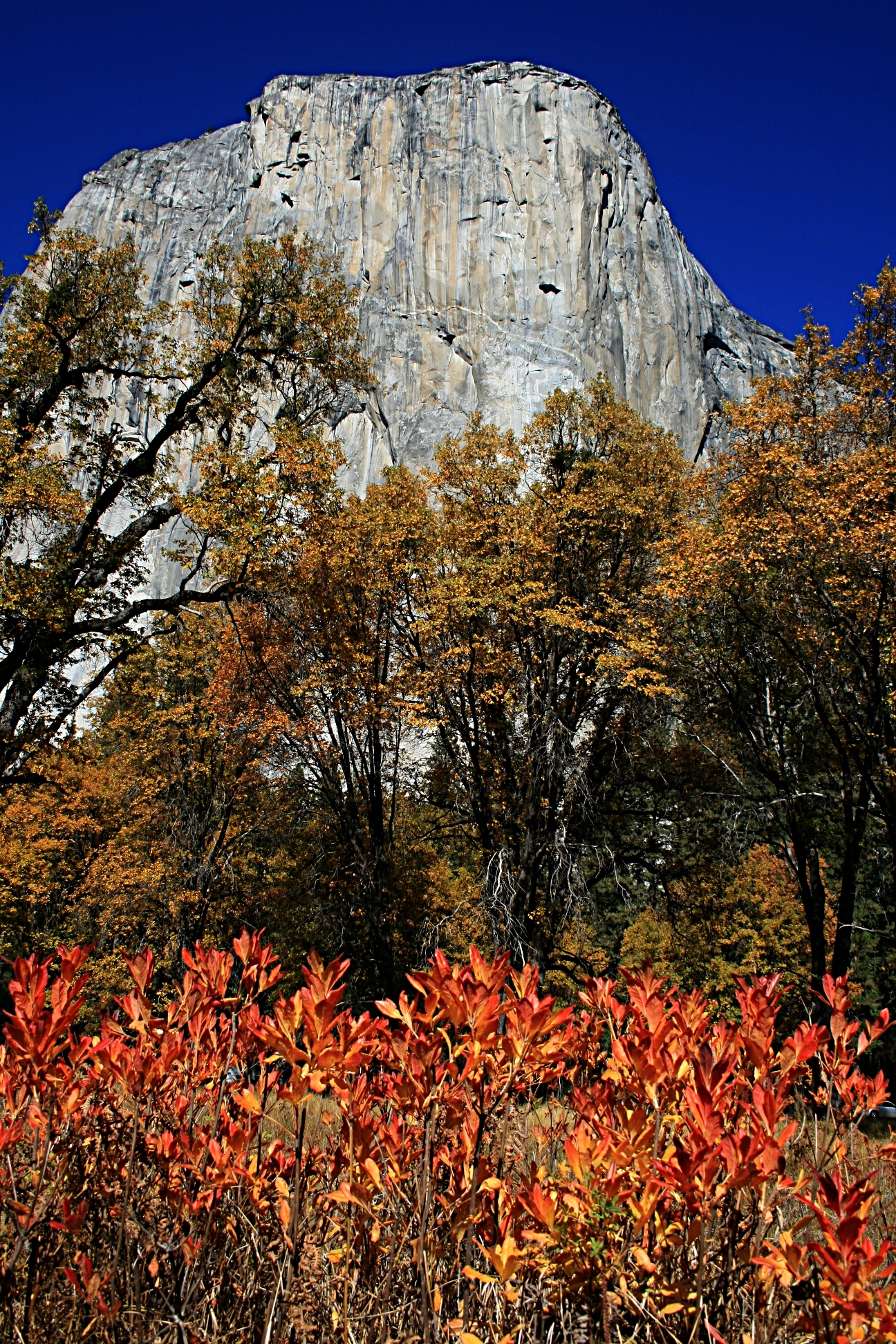 El Capitan in Yosemite National Park, view from the valley floor. Photo taken in Autumn. Note the climbers.